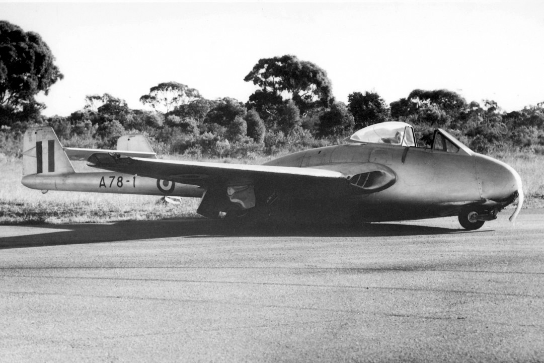 The de Havilland Vampire F1 A78-1 after being crash landed at Pt. Cook RAAF base on 13 June 1947, by ARDU Flt/Lt J. A. Lee Archer. de Havilland Vampire